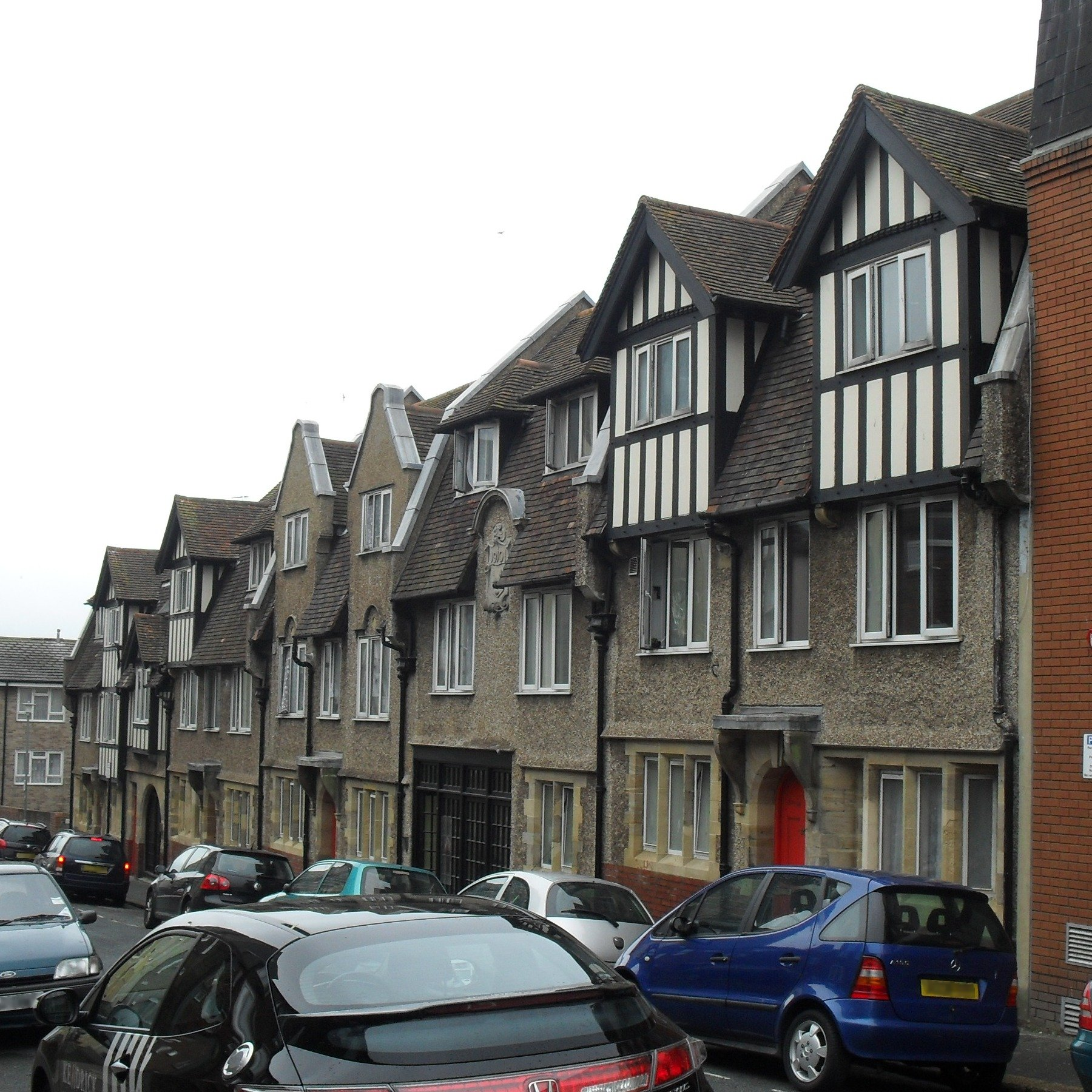 23–30 High Street, Brighton, City of Brighton and Hove, East Sussex. A row of Arts and Crafts-style council houses built in 1910 by local architectural partnership Clayton & Black. Listed at Grade II by English Heritage (IoE Code 481976)